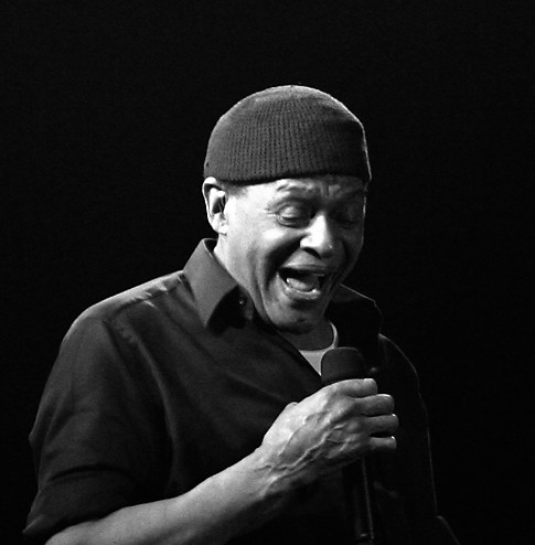 Al Jarreau at the 2006 North Sea Jazz Festival in Rotterdam (Netherlands).